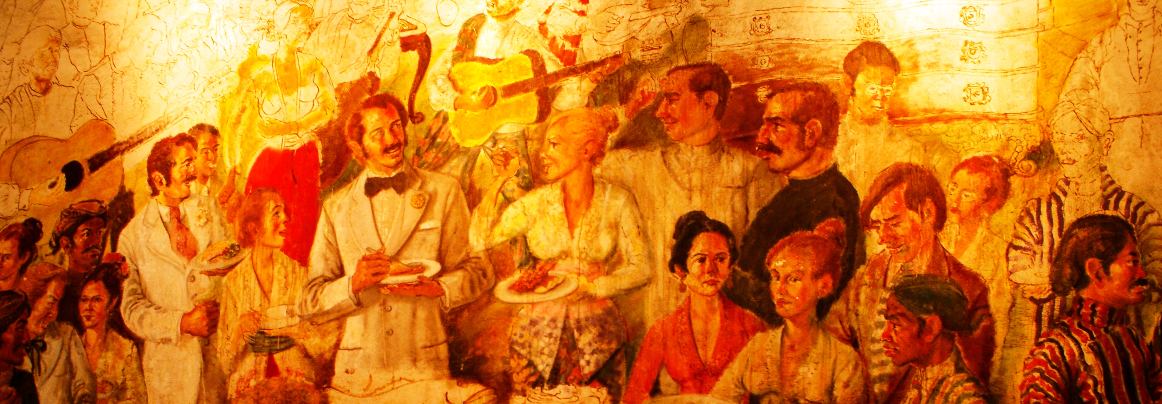 Mural by Harijadi Sumodidjojo at Jakarta Historical Museum.